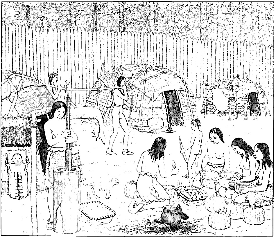 Dumaw Creek Archaeological site - artists conception NRHP #72001477